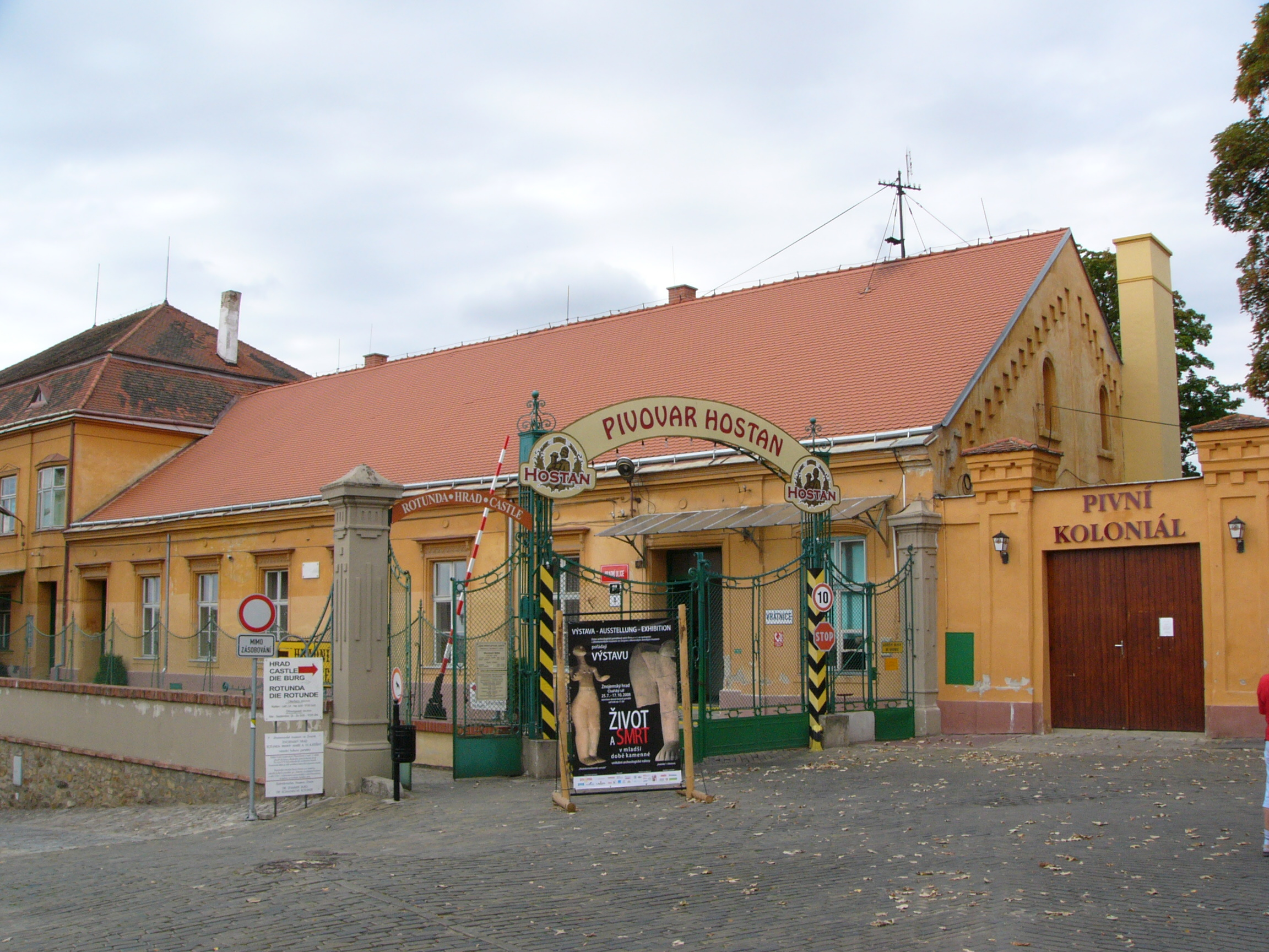 Pivovar Hostan brewery in Znojmo